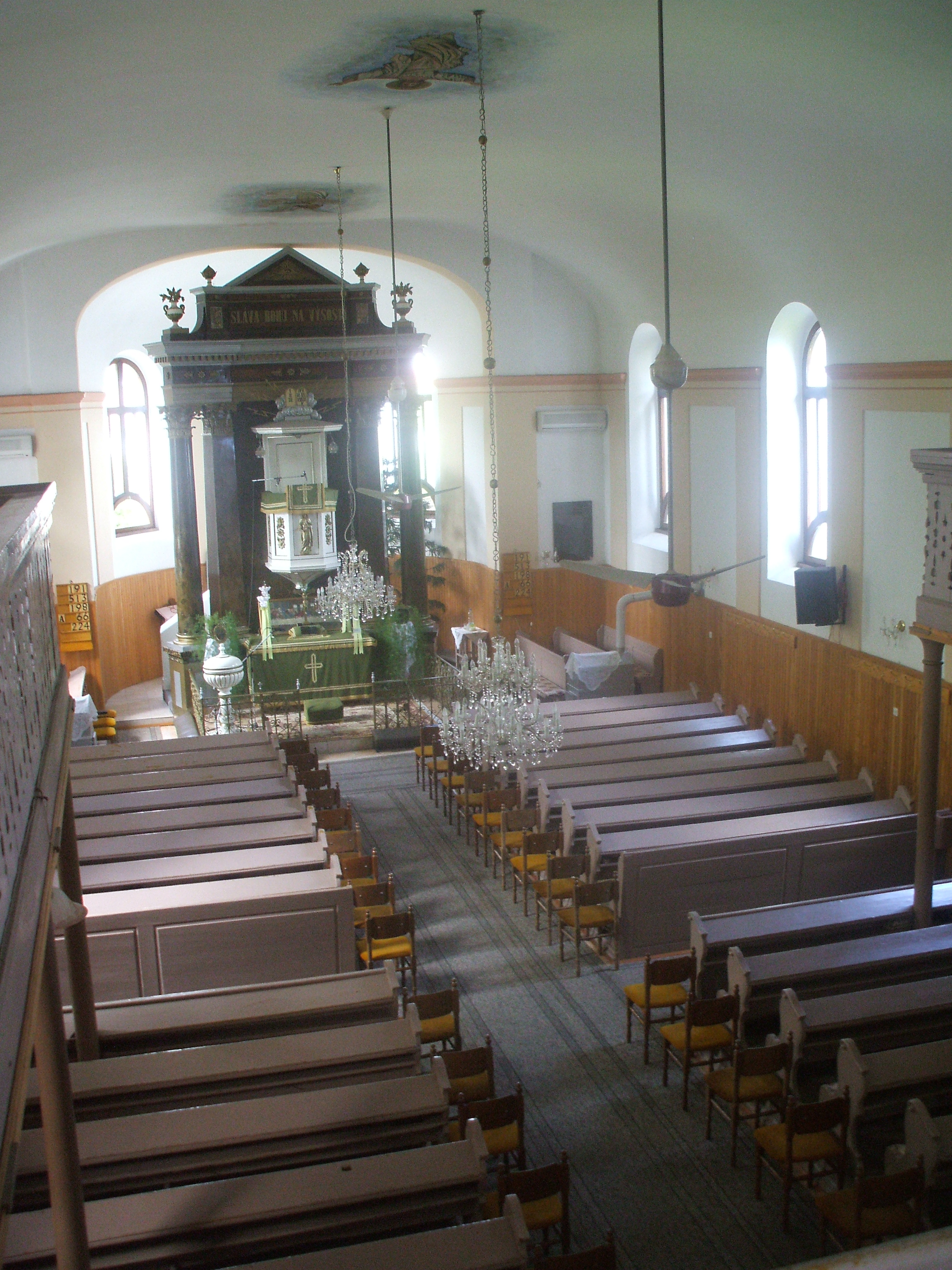 Slovak Evangelical a.c. Church in Kisač (inside)